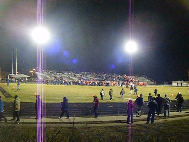 Fans storming the field after Tucker beats Patrick Henry in Overtime